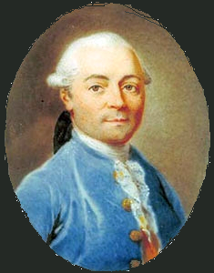 Daniel Roguin.